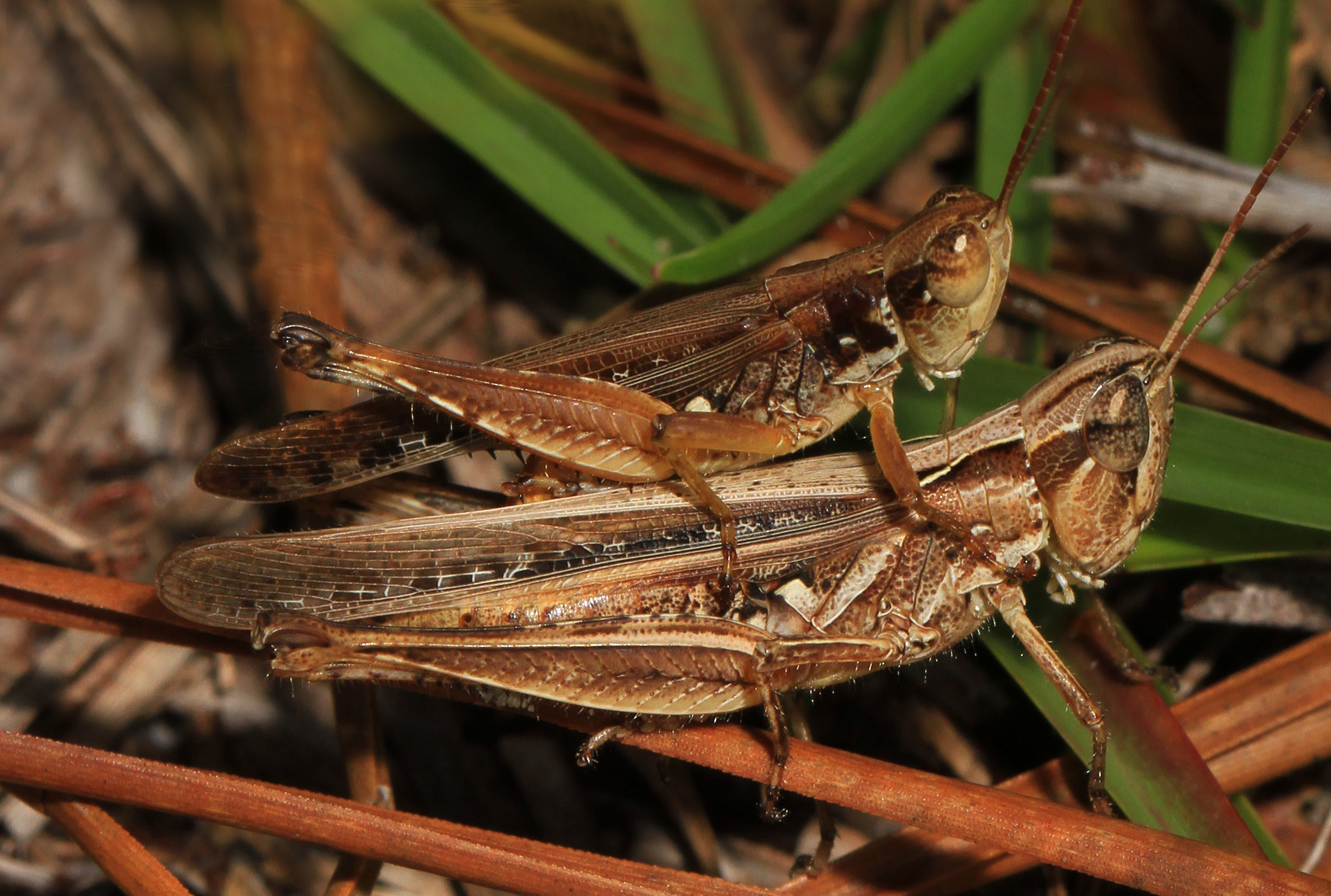 Spotted-wing Grasshopper - Orphulella pelidna, Green Swamp, Supply, North Carolina.